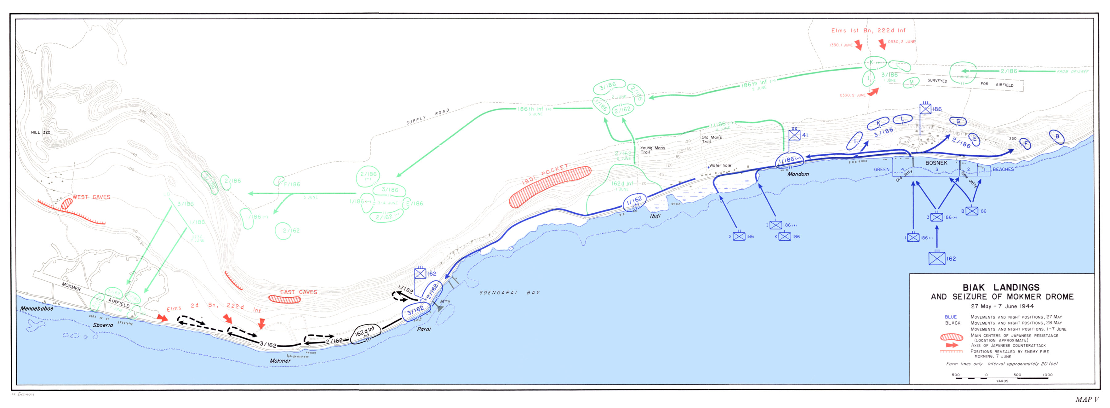 Free Hyperwar map of Biak Island. This is the only free map of the operation around Mokmer, and is not replaceable. All Hyperwar images are free.